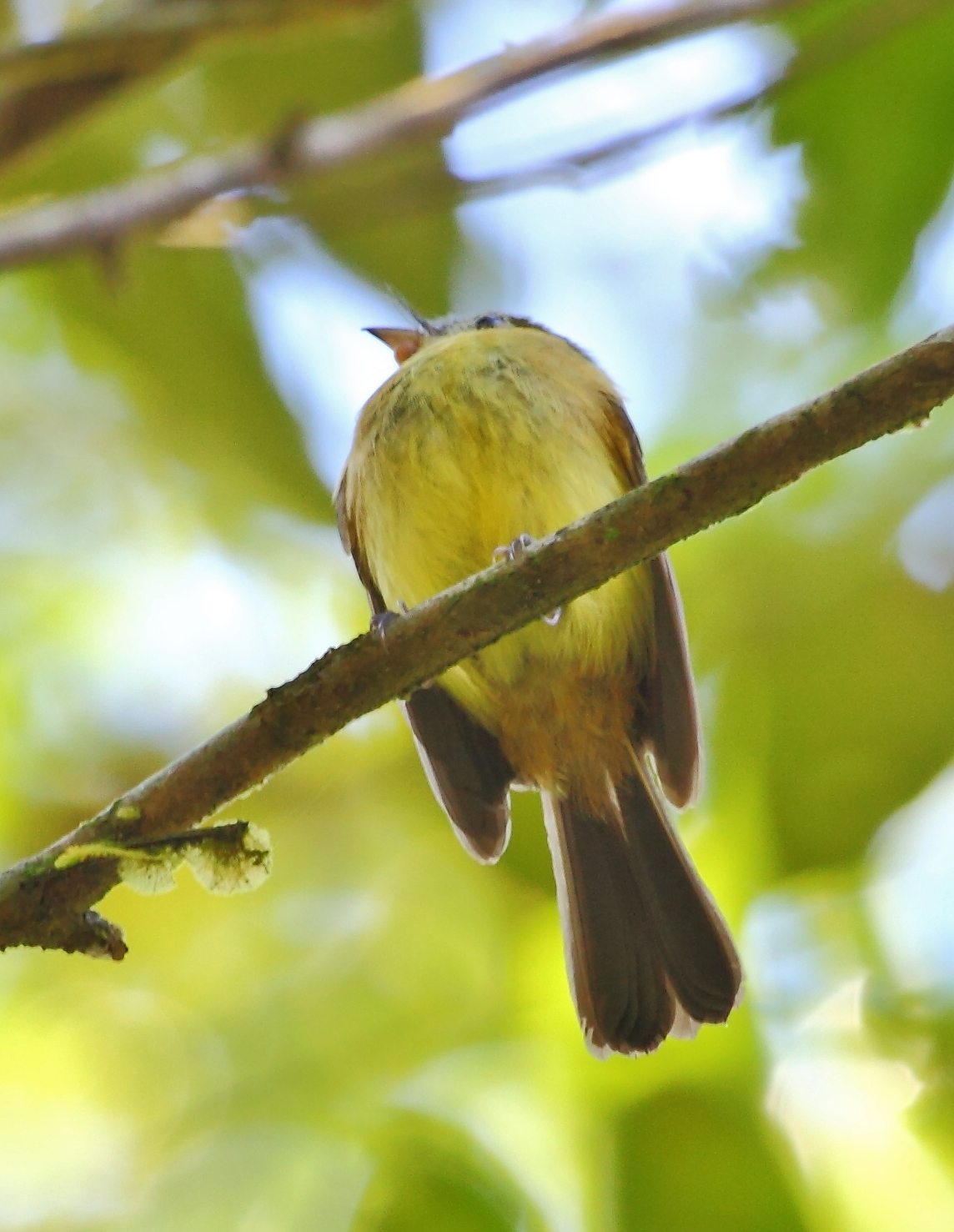 Bearded flycatcher at São Sebastião, São Paulo, Brazil